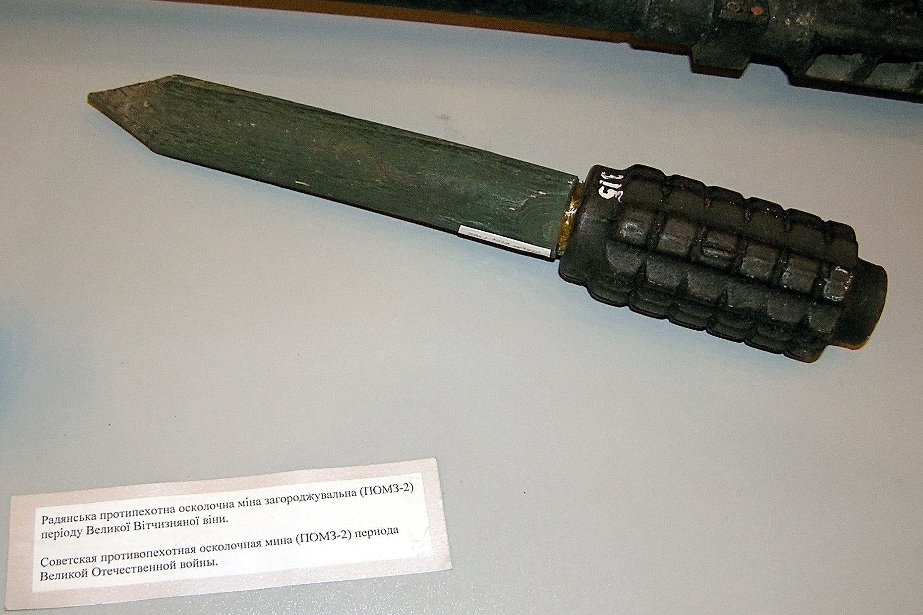 Museum of the History of Donetsk militsiya